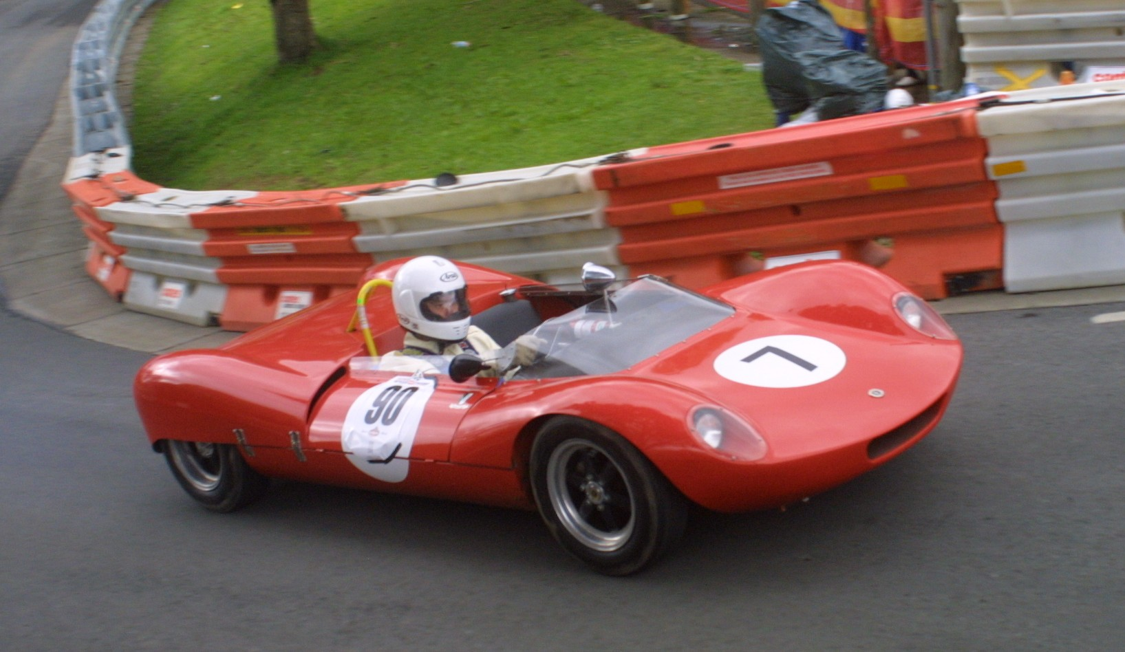 Elfin Mallala sports racing car taken at Murwillumbah Speed on Tweed